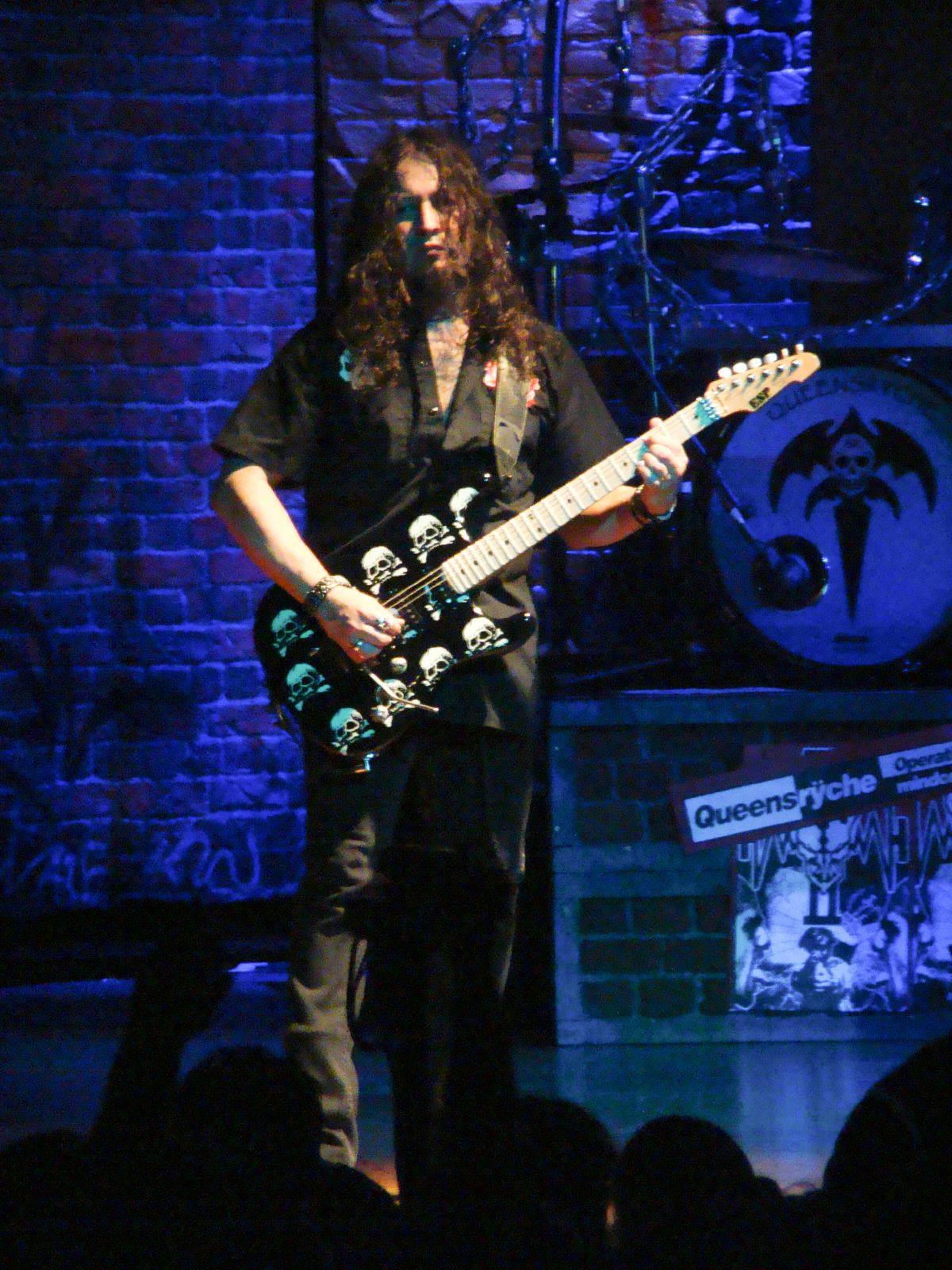 Michael Wilton in Queensryche performing in Barcelona